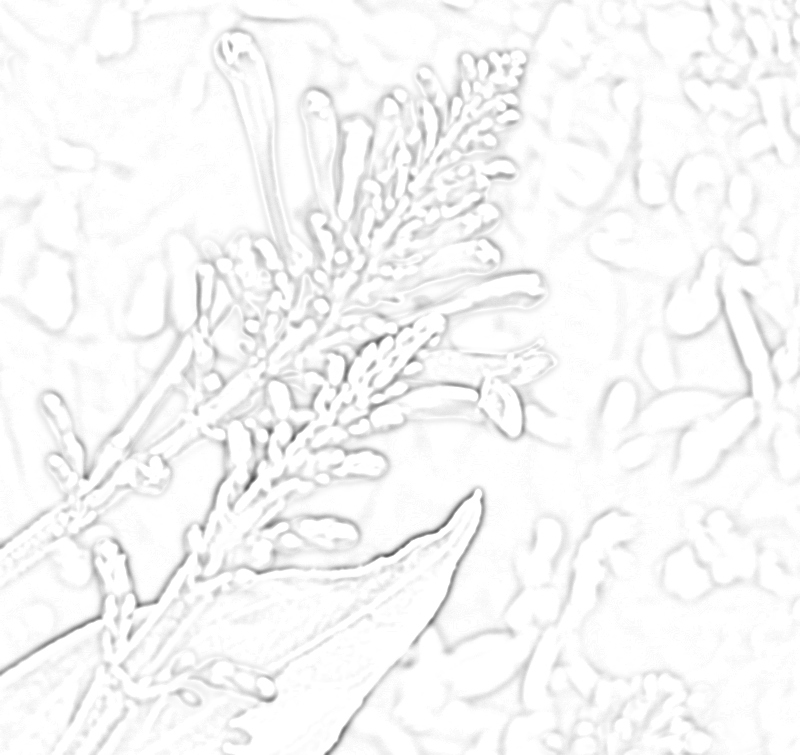 Flowers after application of Difference of Gaussians filter in grayscale